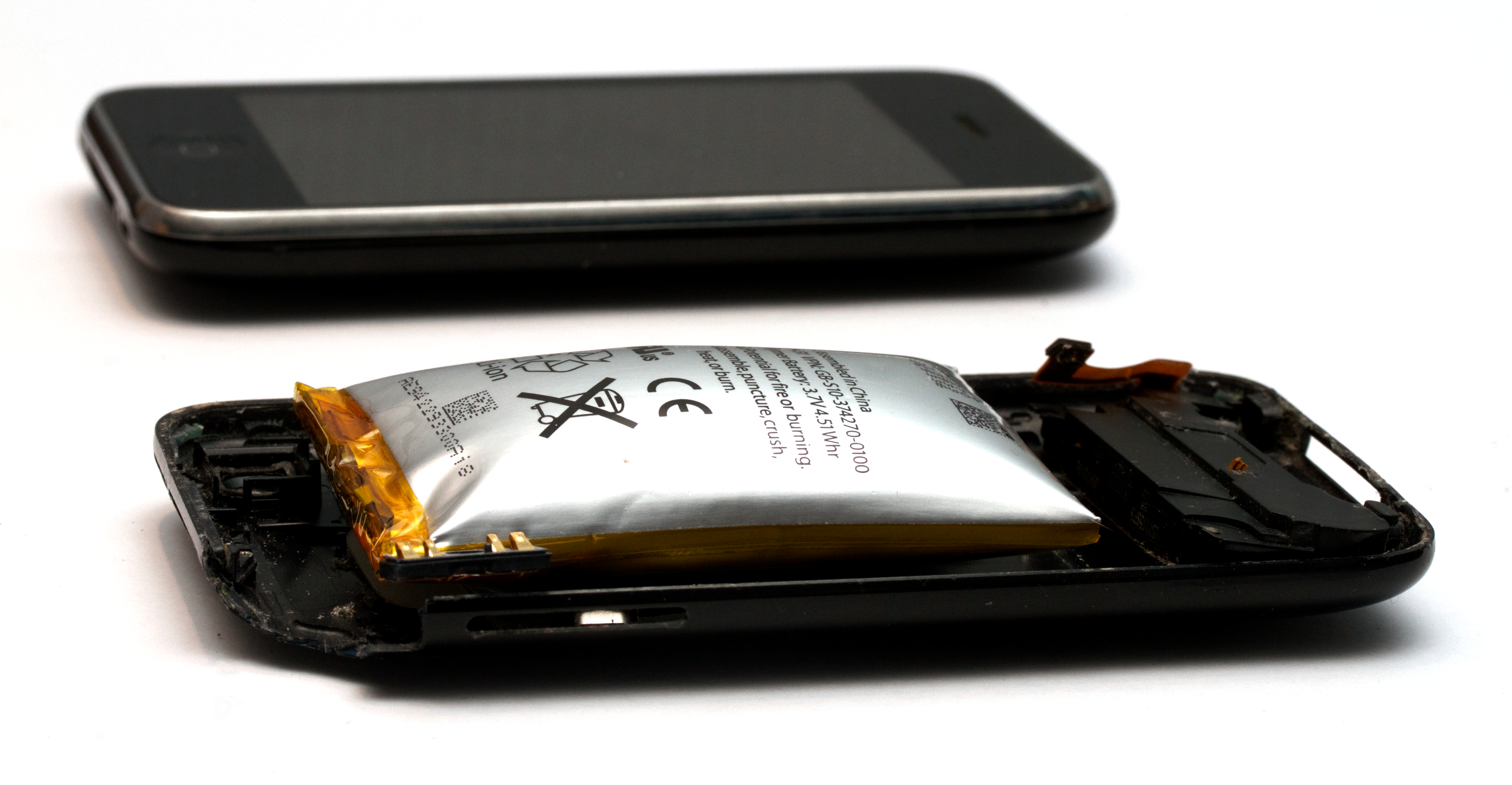 An Apple iPhone 3GS's Lithium-ion polymer battery, which has expanded due to a short circuit failure. The battery is shown in situ on top of the rear phone case; pictured behind is an intact iPhone 3GS for size comparison.